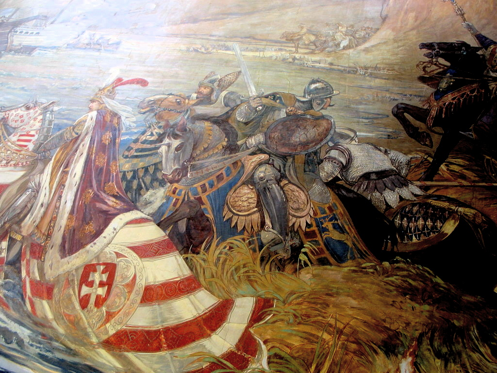 Titusz Vay saves the king Sigismund of Hungary in the Battle of Nicopolis.